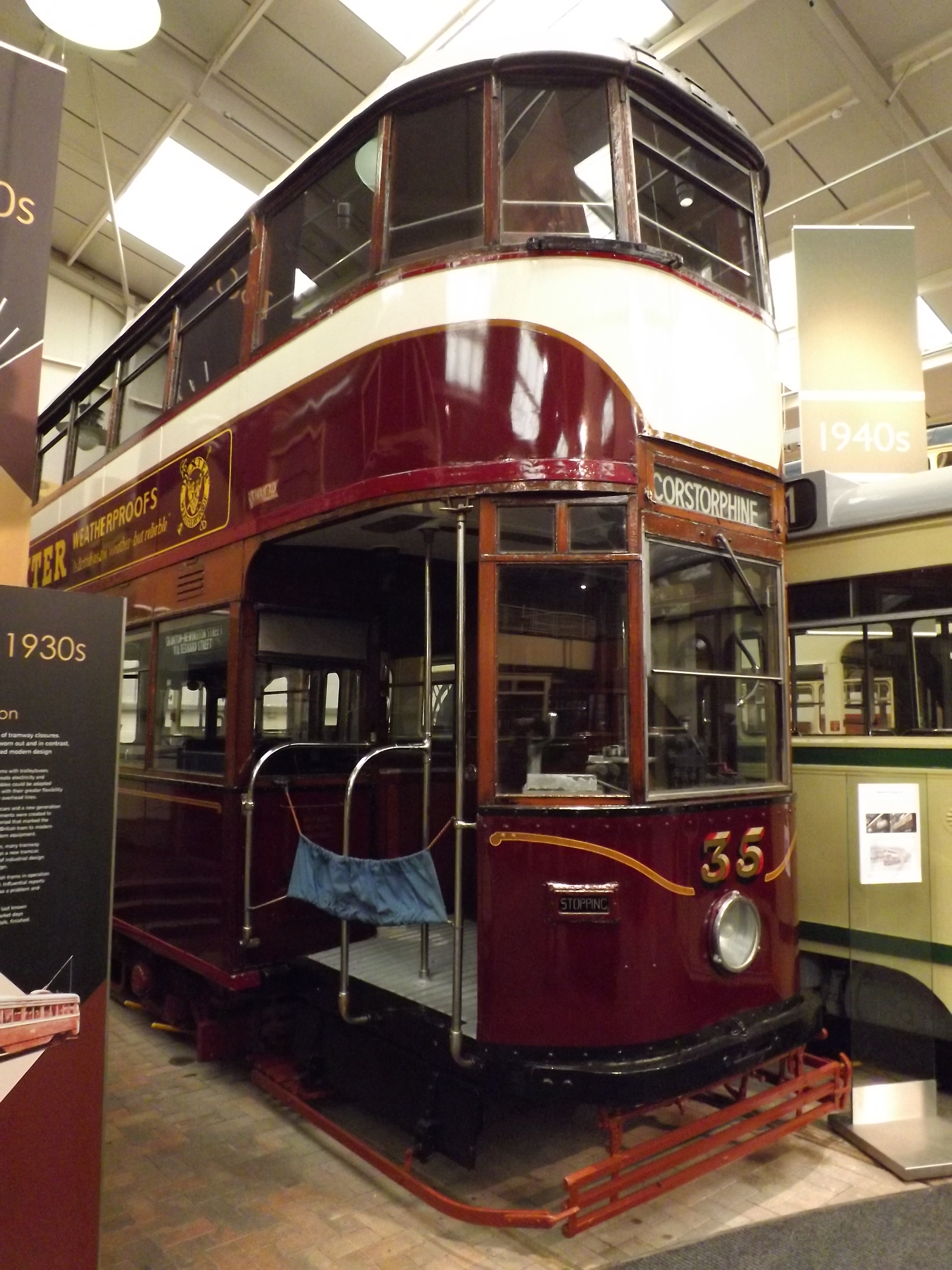 City and Royal Burgh of Edinburgh No. 35 on display in the Exhibition Hall at Crich Tramway Museum in May 2014.